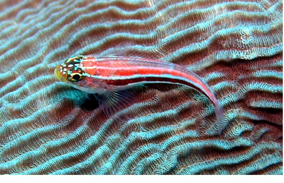 Close up image of Tropical striped triplefin, (Helcogramma striatum), perched on coral. Taken at Lembeh Straights, North Sulawesi, Indonesia.